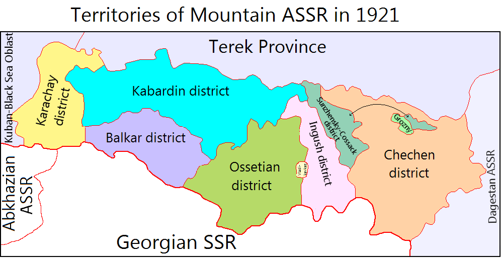 Map of Mountain ASSR (English)